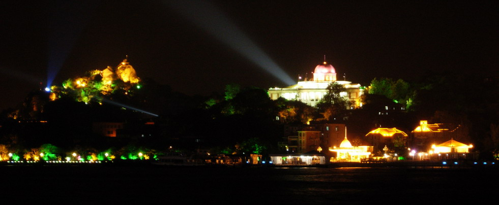 xiamen，gulangyu Bân-lâm-gú: Ē-mn̂g Kóo-lōng-sū. 廈門鼓浪嶼。